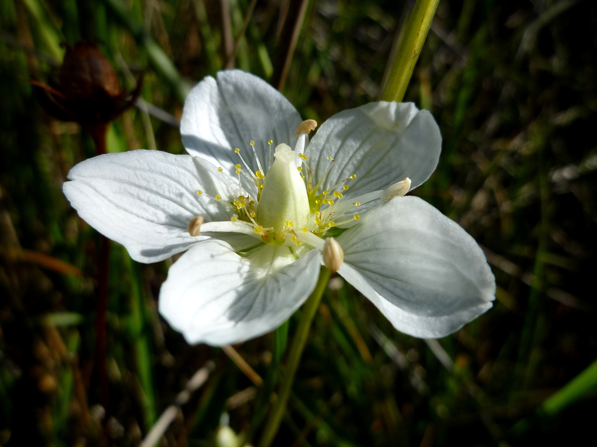 Parnassia palustris. In Serrat de la Matella of Gósol (Berguedà - Catalunya). To 1.550 m. altitude.